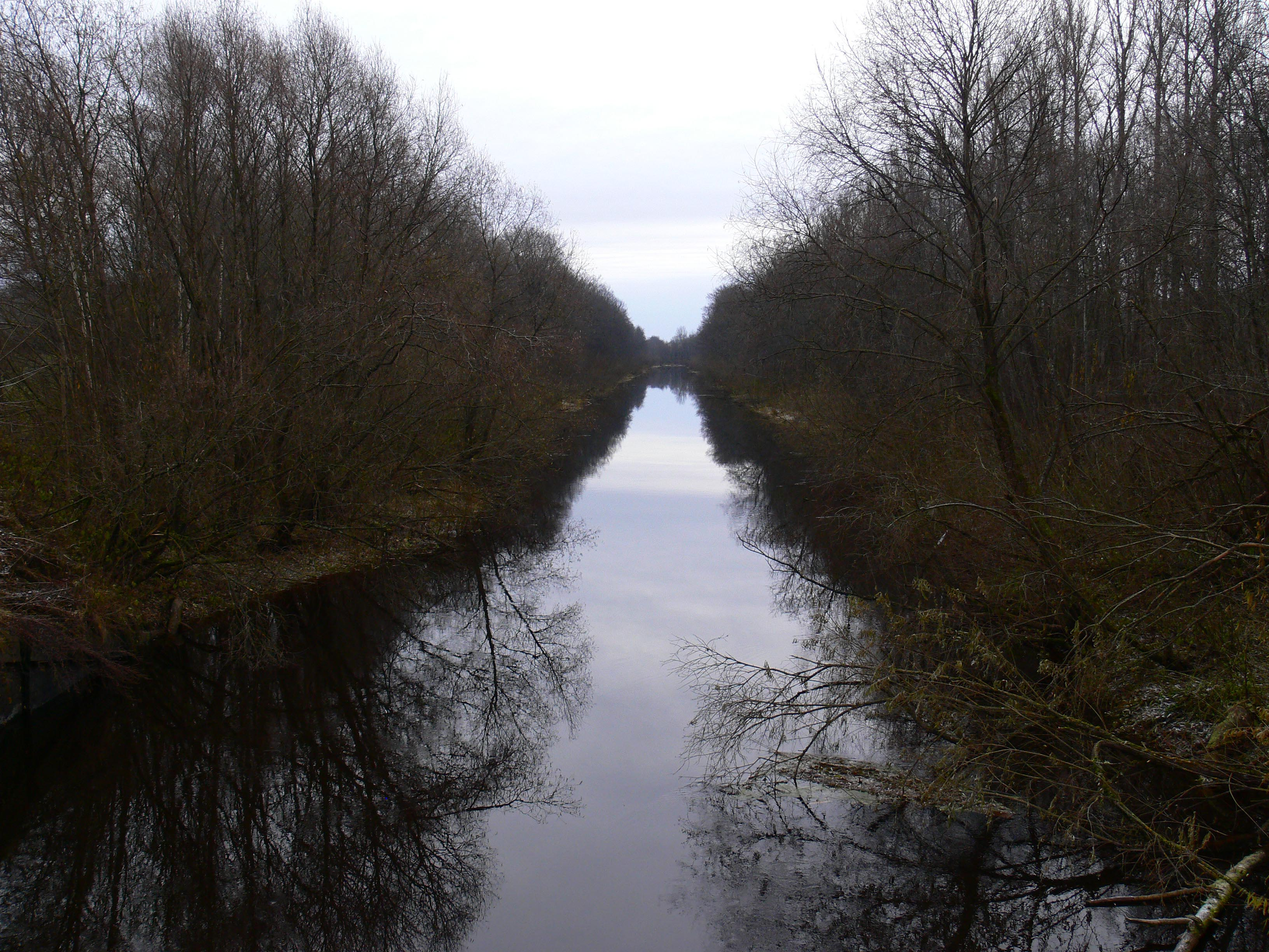 Visherskiy canal between Msta river and Vishera river near Velikiy Novgorod, Russia